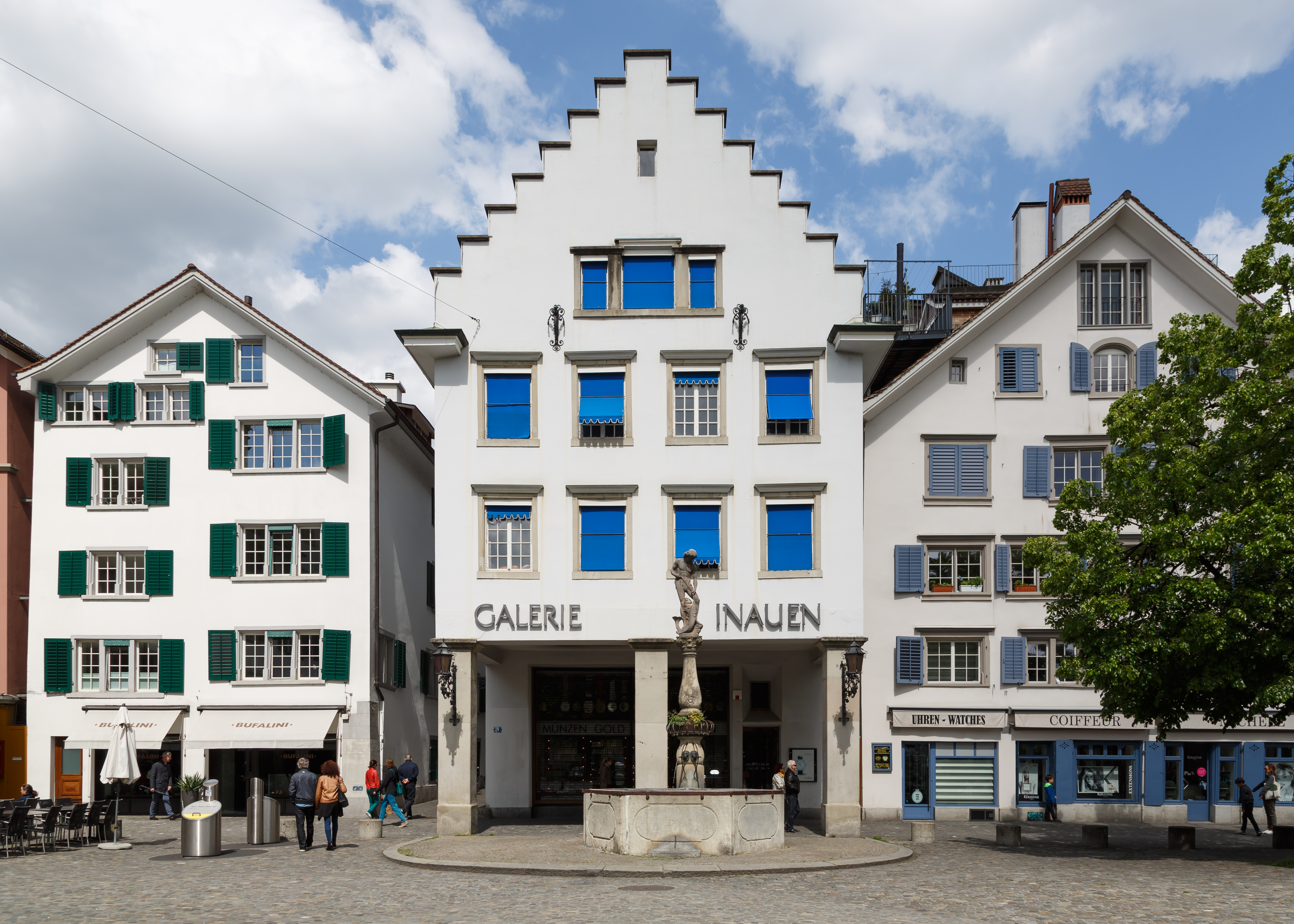 Zürich, Switzerland: Houses and fountain at Hechtplatz